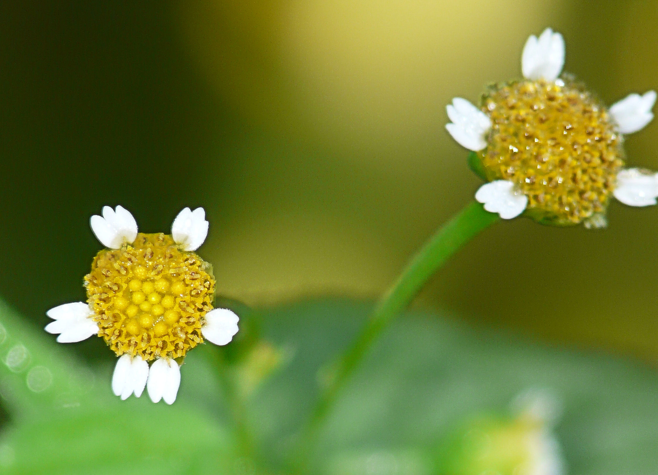 Galinsoga parviflora